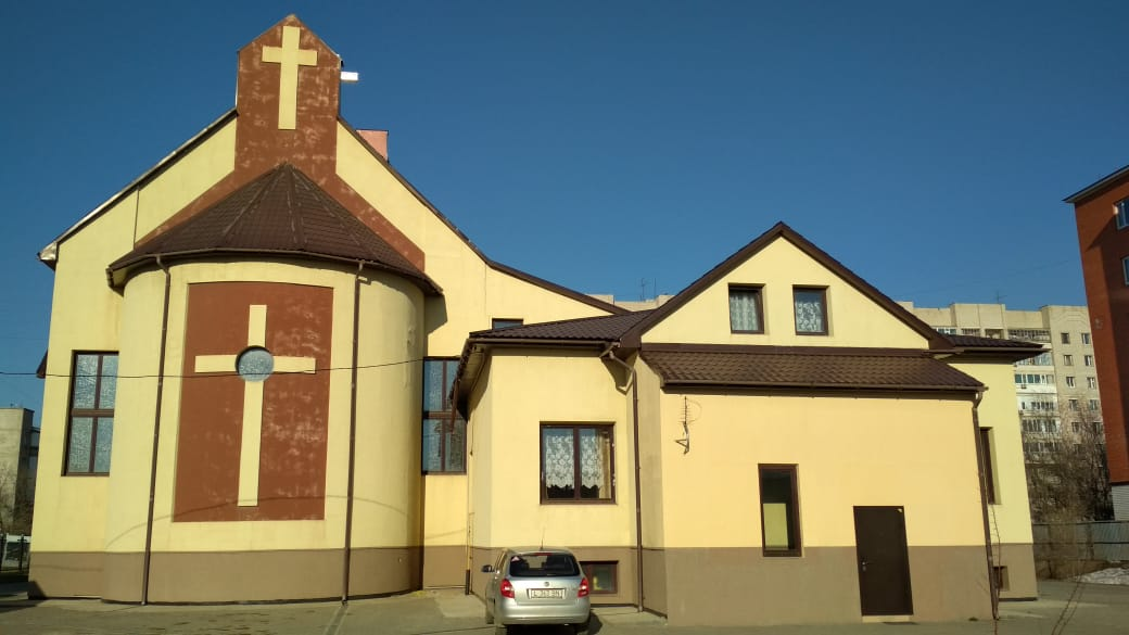 Uralsk kościół parafialny i zaplecze duszpasterskie, widok z tyłu